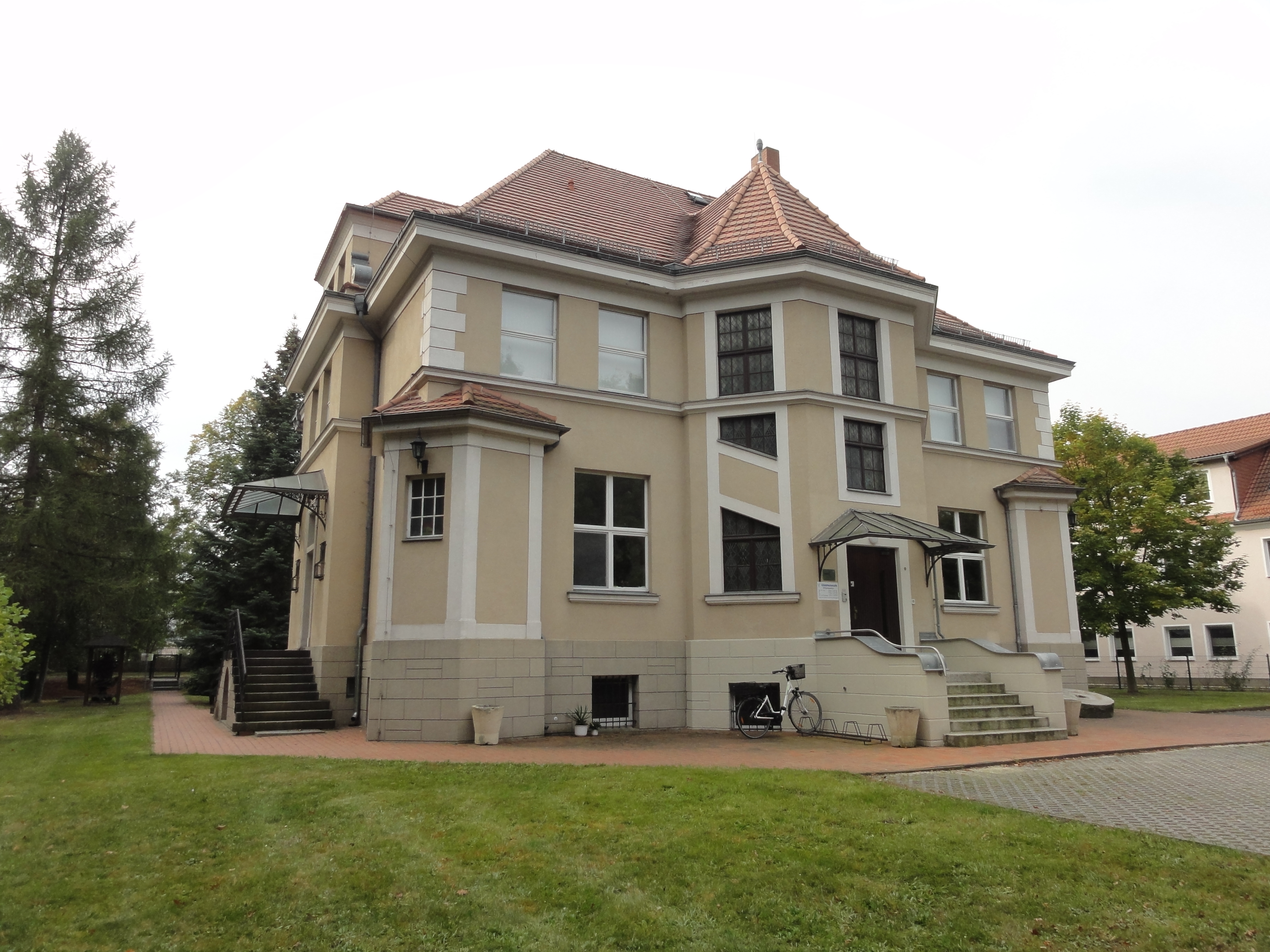 former Villa of the business family Gelsdorf; today building of the Glass Museum in Weißwasser, Forster Straße 12 website